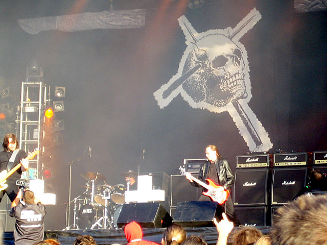 Candlemass @ Wacken 2005